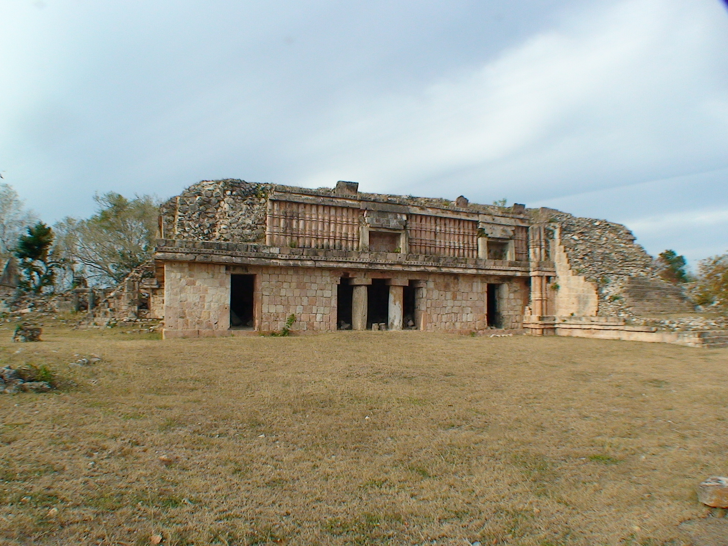 Chacmultun, Yucatan, Mexico: Group Chacmultun, building 1